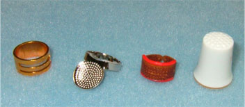 Thimble_pattern.jpg